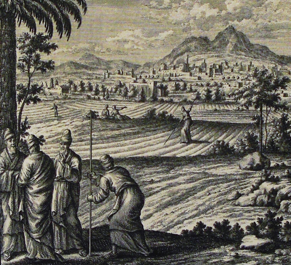 A print from the Phillip Medhurst Collection of Bible illustrations in the possession of Revd. Philip De Vere at St. George’s Court, Kidderminster, England.